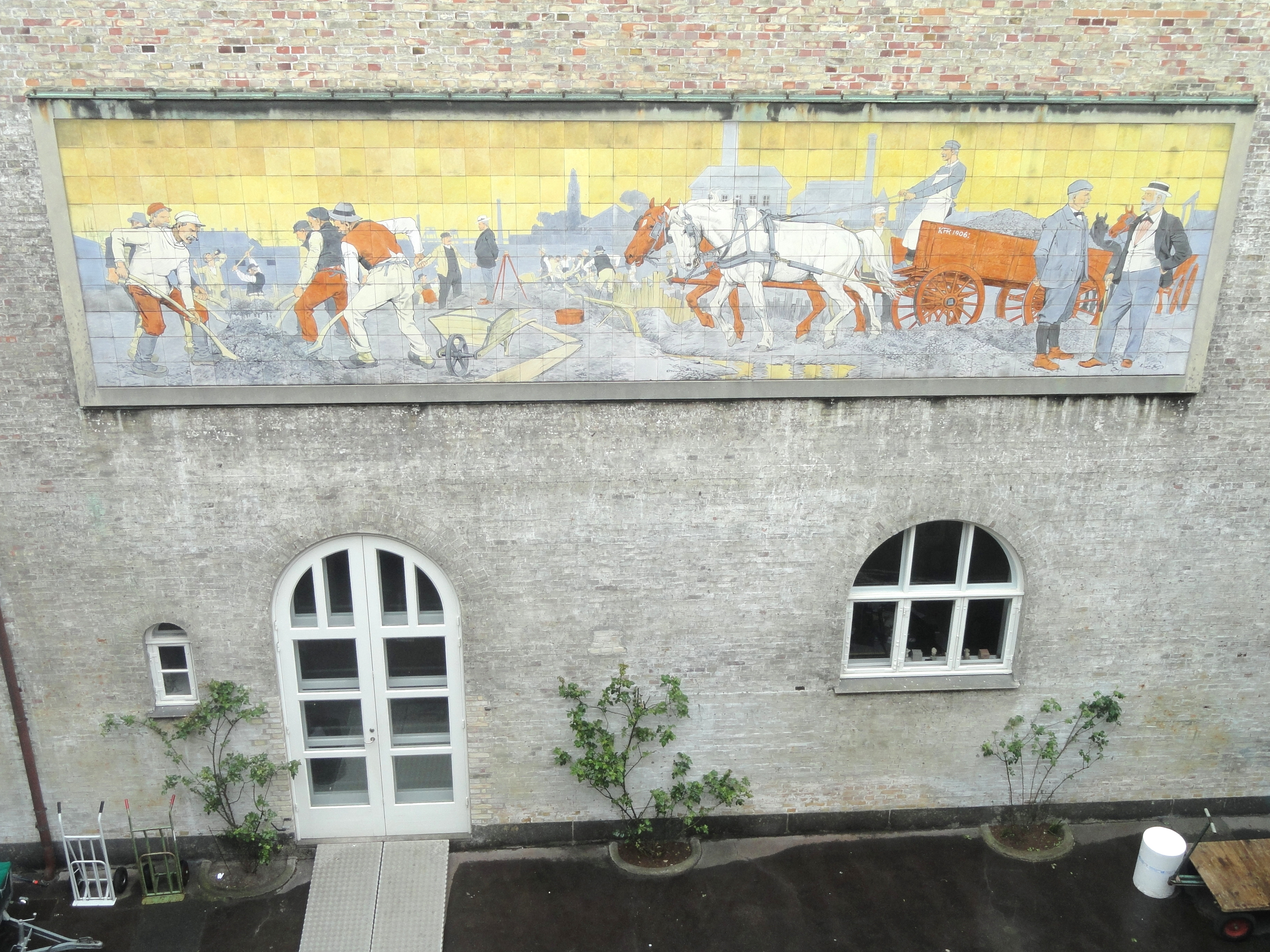 Exhibit in the Ny Carlsberg Glyptotek, Dantes Plads 7, Copenhagen, Denmark. The museum permitted photography without restriction. This artwork is now in the public domain because the artist died more than 70 years ago.